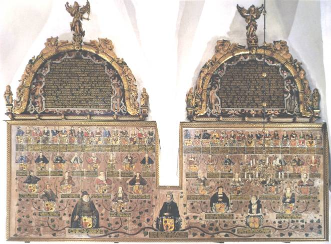 Abbey Church or Nykøbing Falster displays 63 of the ancestors of Sophie of Mecklenburg-Güstrow, queen dowager of Denmark, with illustrations. It is the work of Antonius Clement, completed in 1627.